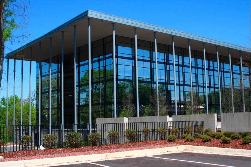 The Bank of Tuscaloosa Plaza along located in downtown Tuscaloosa along the banks of the Black Warrior River.